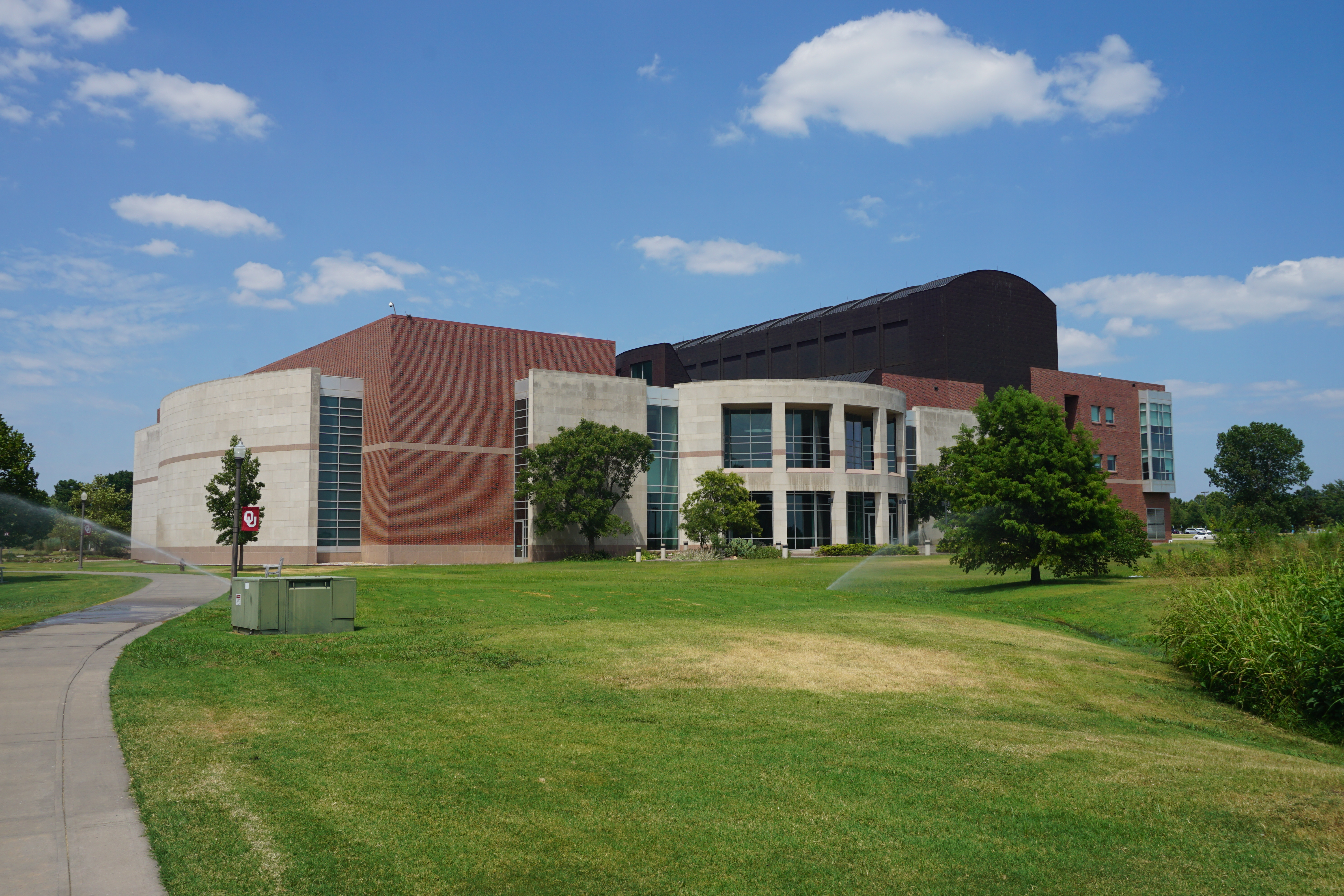 The Sam Noble Oklahoma Museum of Natural History on the campus of the University of Oklahoma in Norman, Oklahoma (United States).